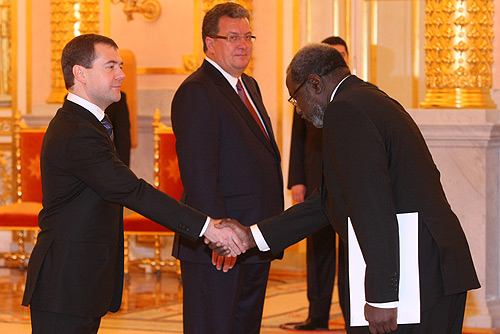 THE KREMLIN, MOSCOW. Presentation ceremony of foreign ambassadors’ letters of credentials. Ambassador of the Republic of Cameroon Mahamat Paba Sale presents his letter of credentials to the President of Russia.